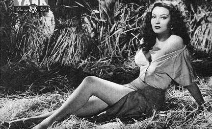 Pin-up photo of Linda Darnell for Yank, the Army Weekly, a weekly U.S. Army magazine fully staffed by enlisted men.